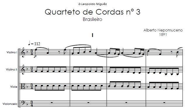 Alberto Nepomuceno's String Quartet No. 3